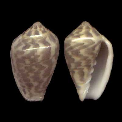 Species: Marginella bairstowi Sowerby, 1886 data: dredged 60m, Fishhoeck, False Bay. South Africa L 16mm